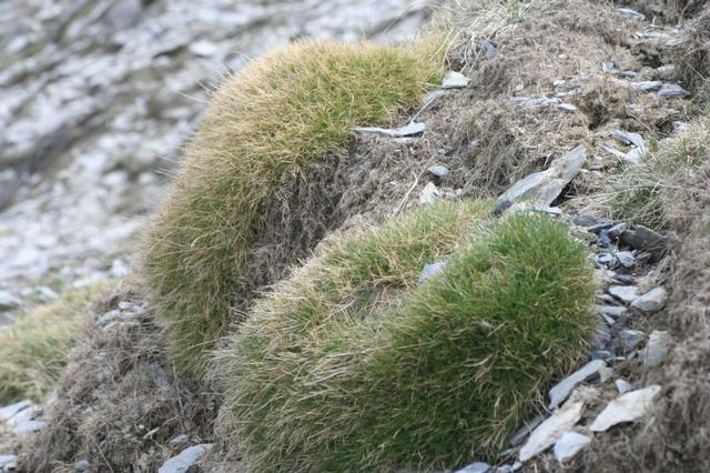 (en) Festuca eskia, a photography originating of the internet site The accord of the autor, H. Brisse, is here. (fr) Festuca eskia, une photographie issue du site internet L'accord de l'auteur, H. Brisse, se situe ici.